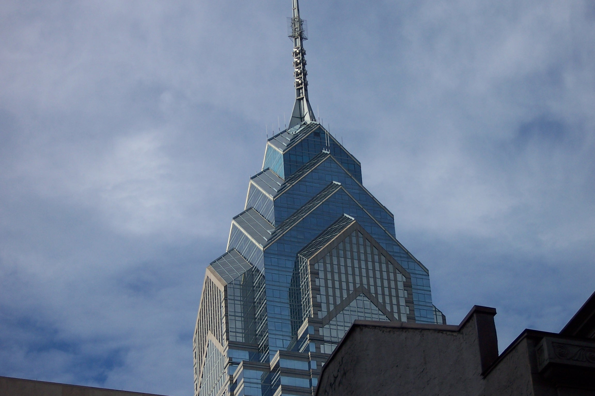 Spire closeup of One Liberty Place, Philadelphia